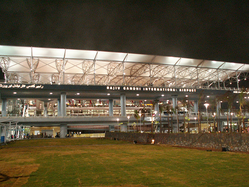 by Mark D. Martin India Uploaded to wiki by User:nikkul